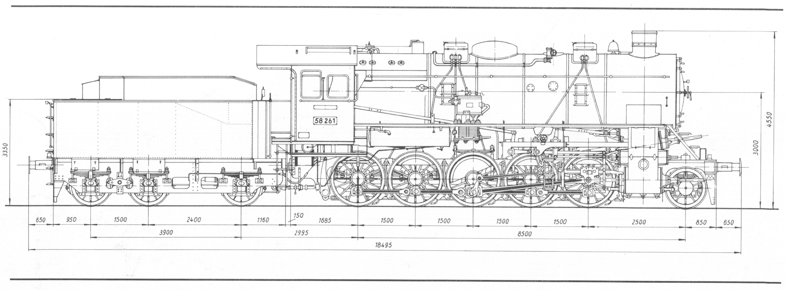 Sectional drawing of the steam locomotive Badenian G 12 of the Deutsche Reichsbahn.